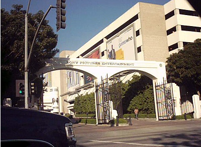 Main entrance to Sony Pictures Entertainment lot in Culver City.